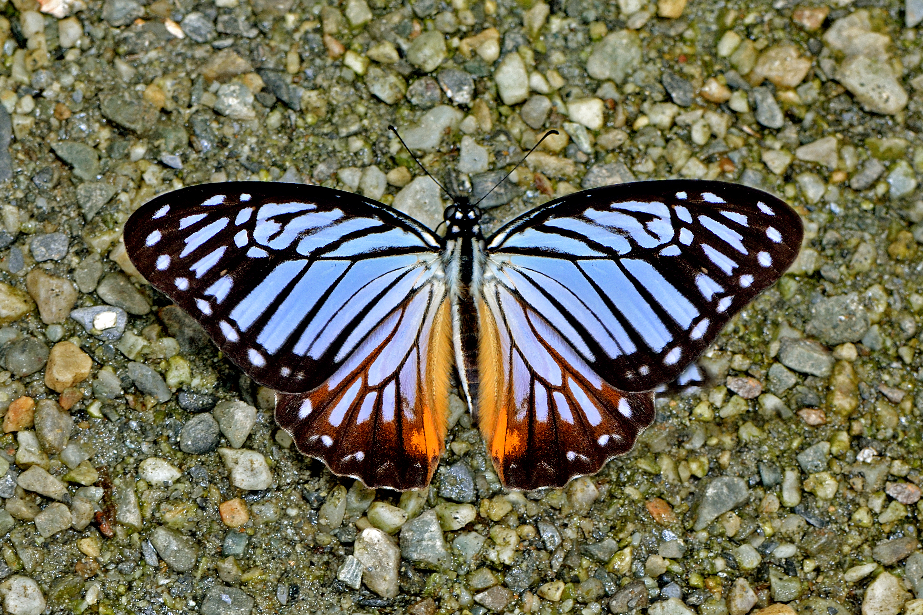 Open wing busking of Graphium xenocles Doubleday, 1842 – Great Zebra